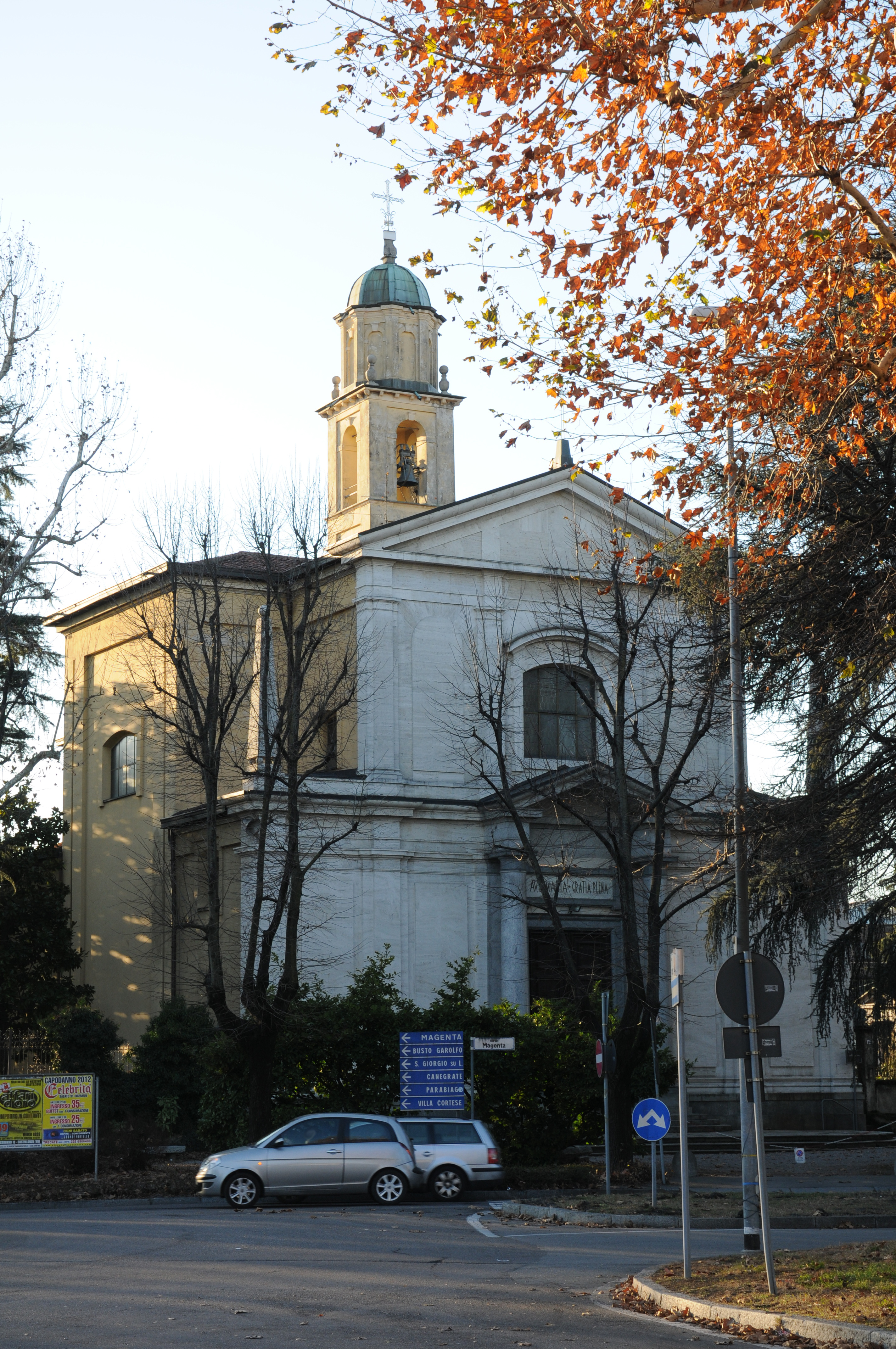 Madonna delle Grazie Sanctuary in Legnano (Italy)